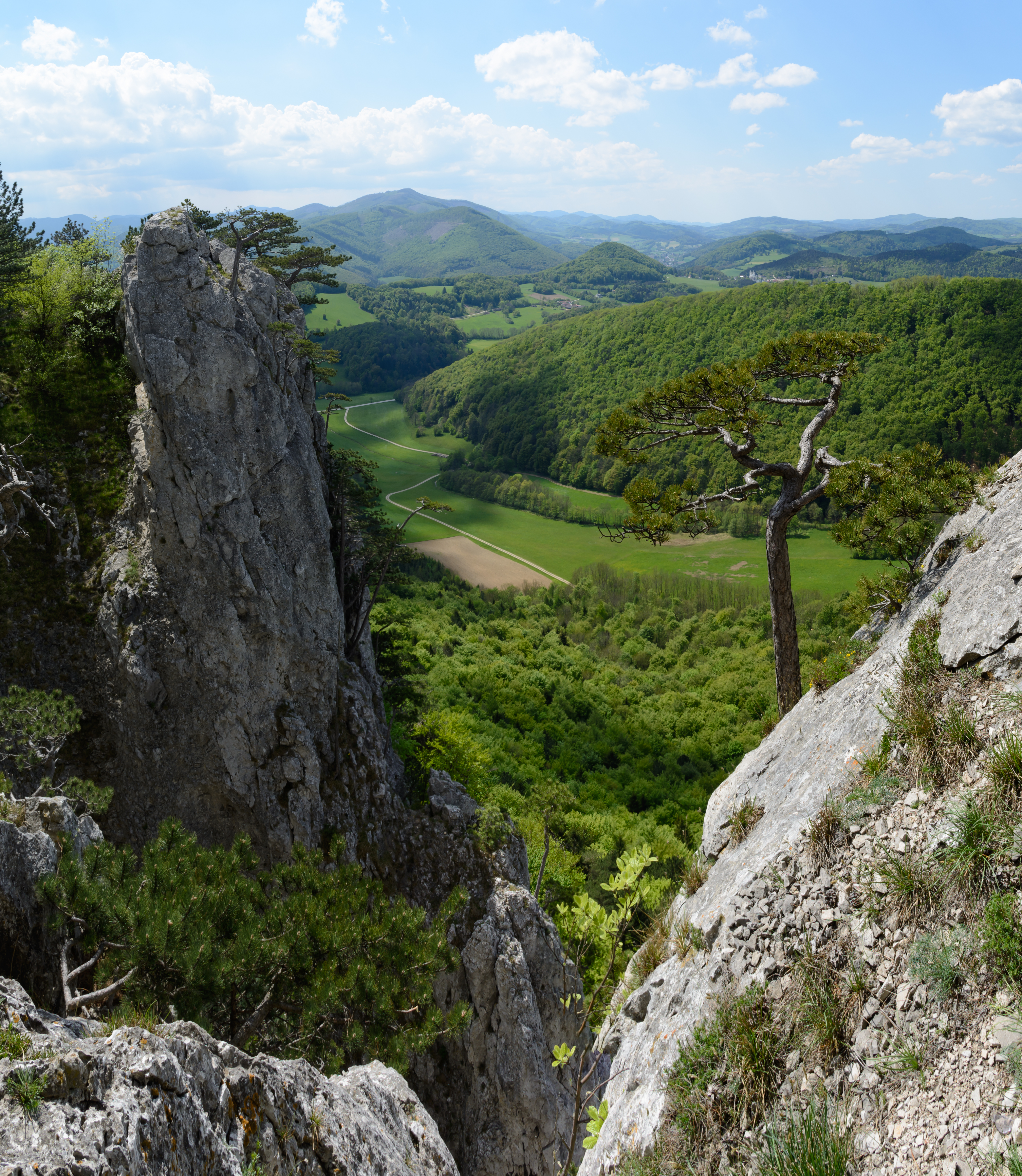 Cliffs of Peilstein mountain in the Vienna Woods, Lower Austria